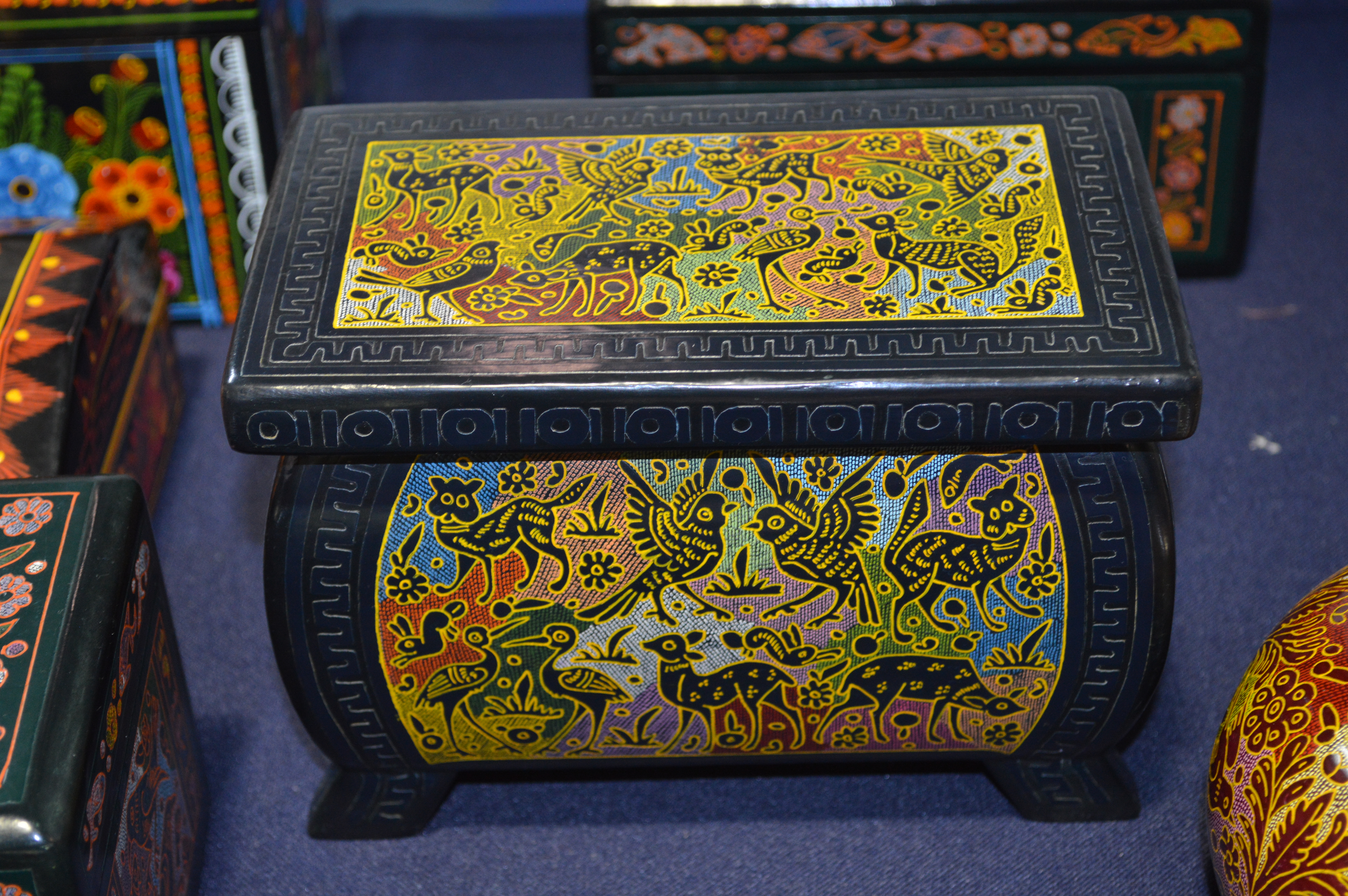 Lacquer box from Olinalá Guerrero on display at the Expo de los Pueblos Indígenas in Mexico City